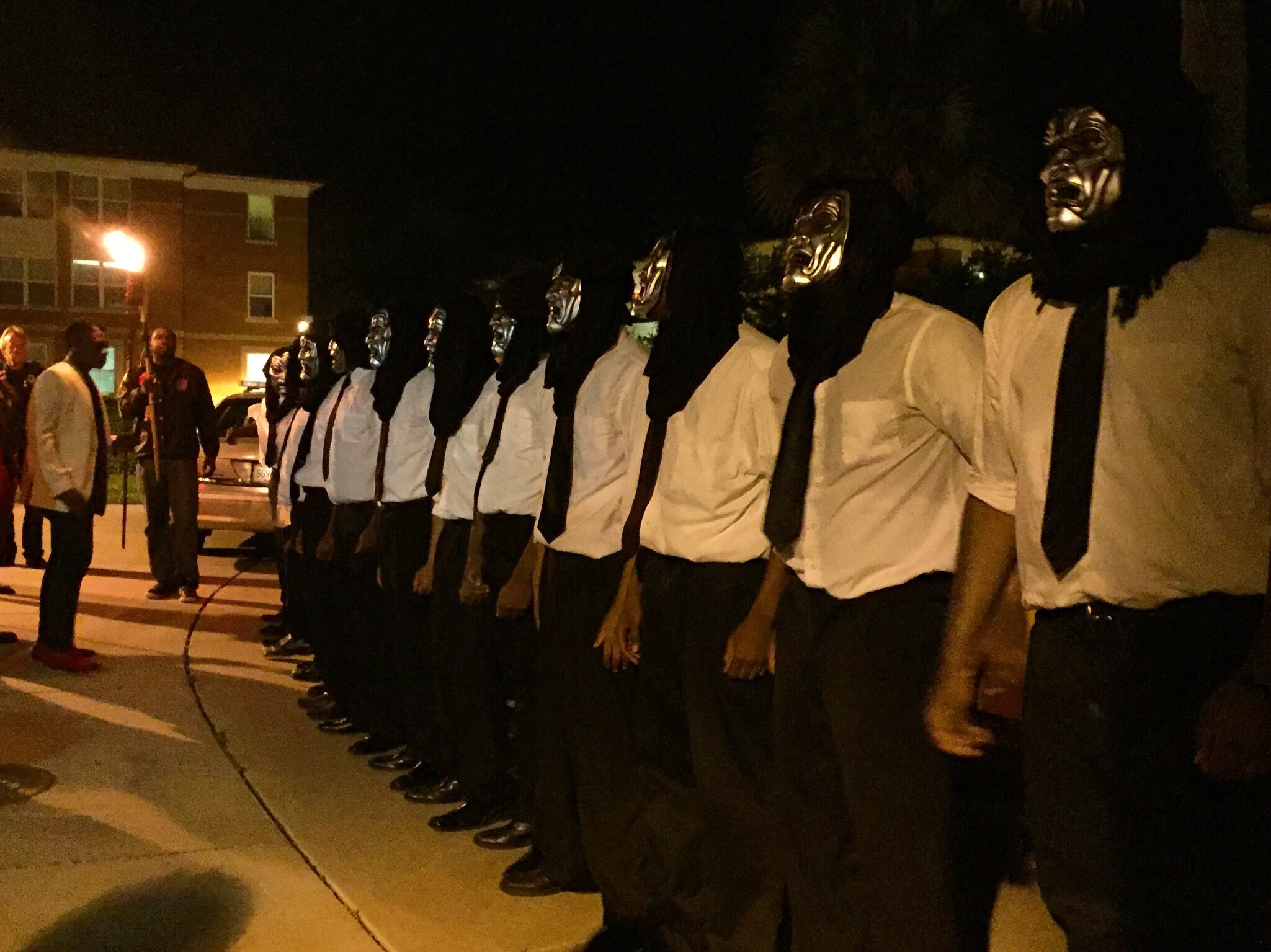 Yard Show of Nu Iota Chapter of Phi Mu Alpha Sinfonia